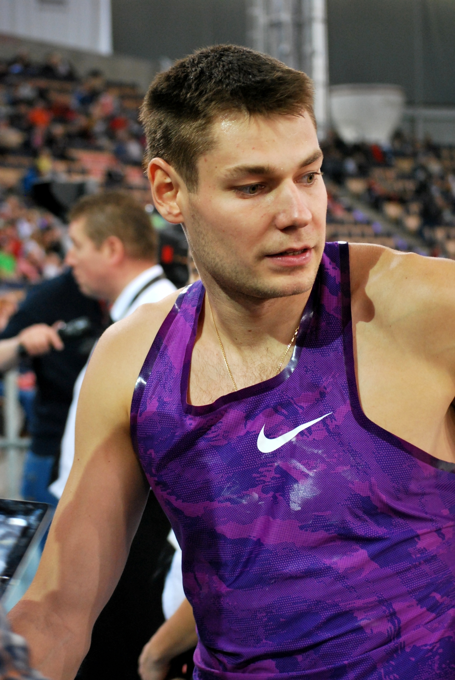 Paweł Wojciechowski, pole vaulter from Poland, Pedro's Cup Łódź 2016